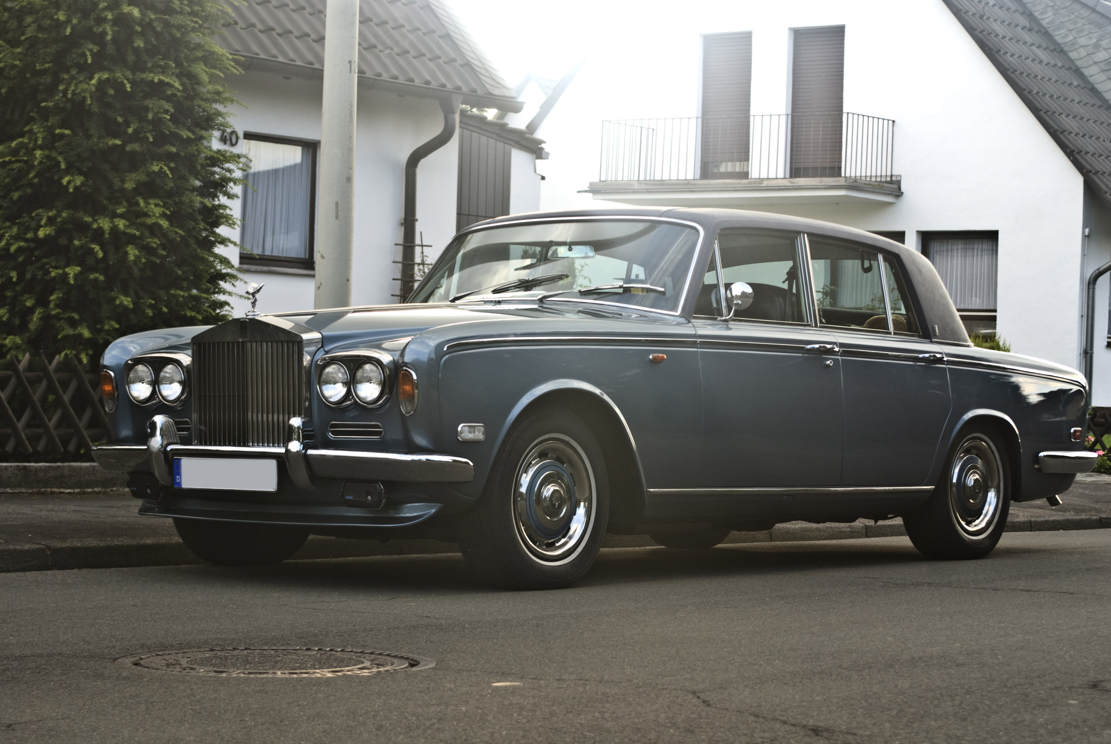 A Rolls-Royce Silver Shadow I from 1972 in Caribbean blue.